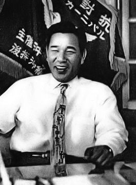 Kosho Kokuba